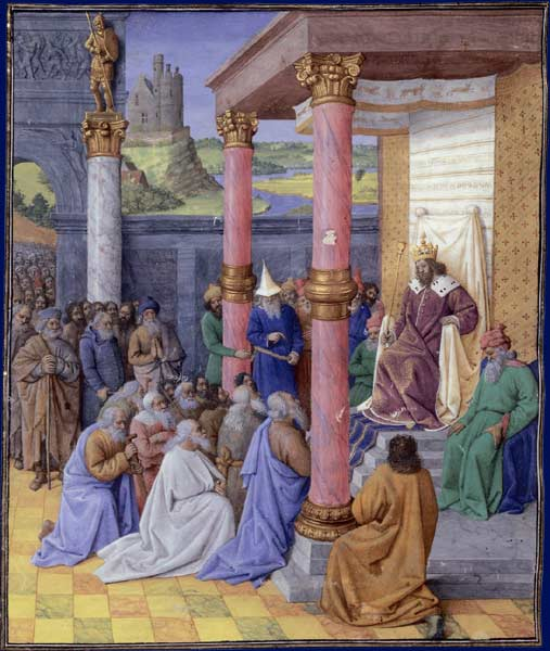 This is a depiction of the biblical character, Emperor Cyrus the Great of Persia, who permitted the Hebrews to return to the Holy Land and rebuild God's Temple.